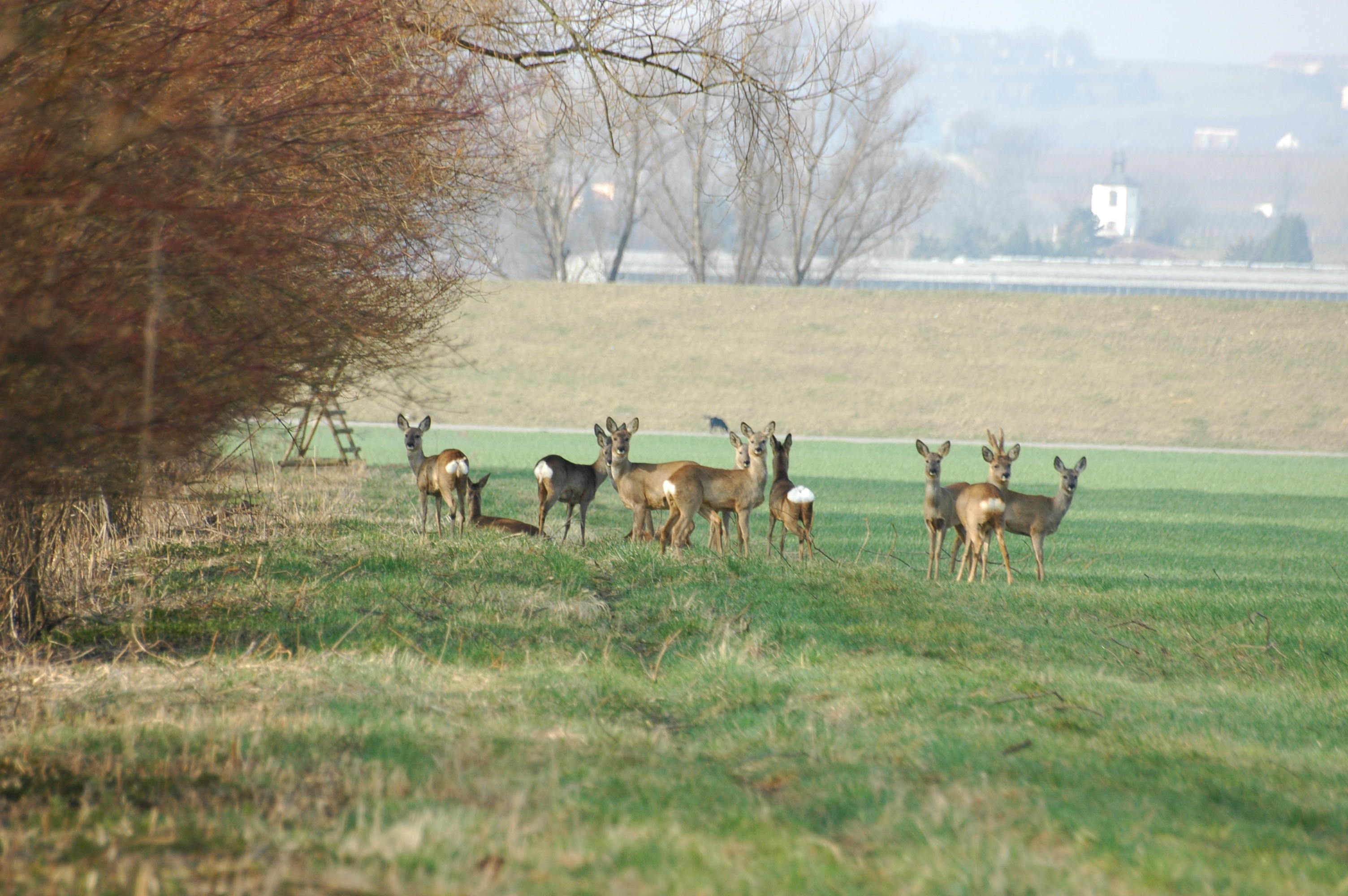 Roe deer